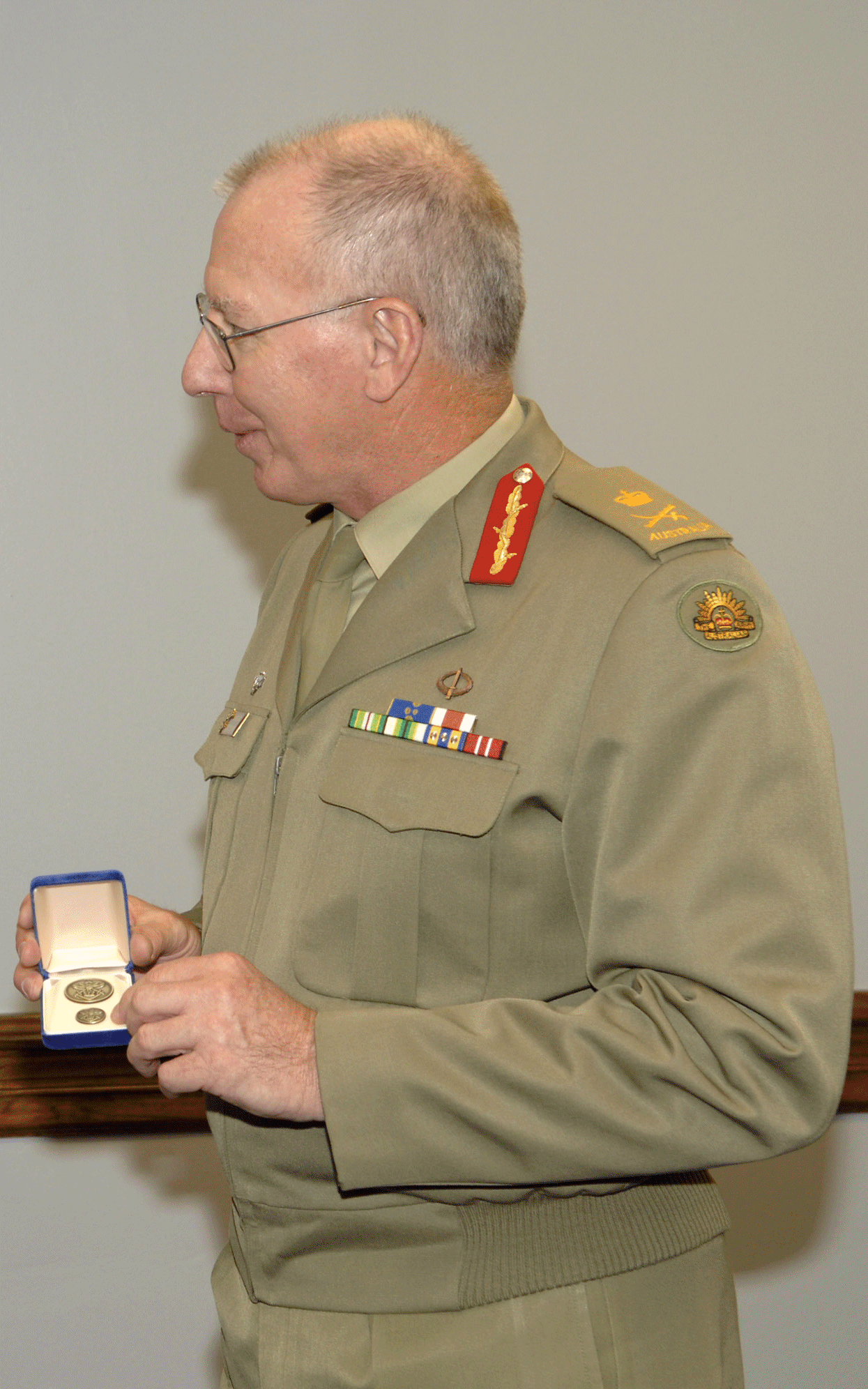 Horrible pictute of Oz Lt Gen David Hurley, but it's not copyright ...